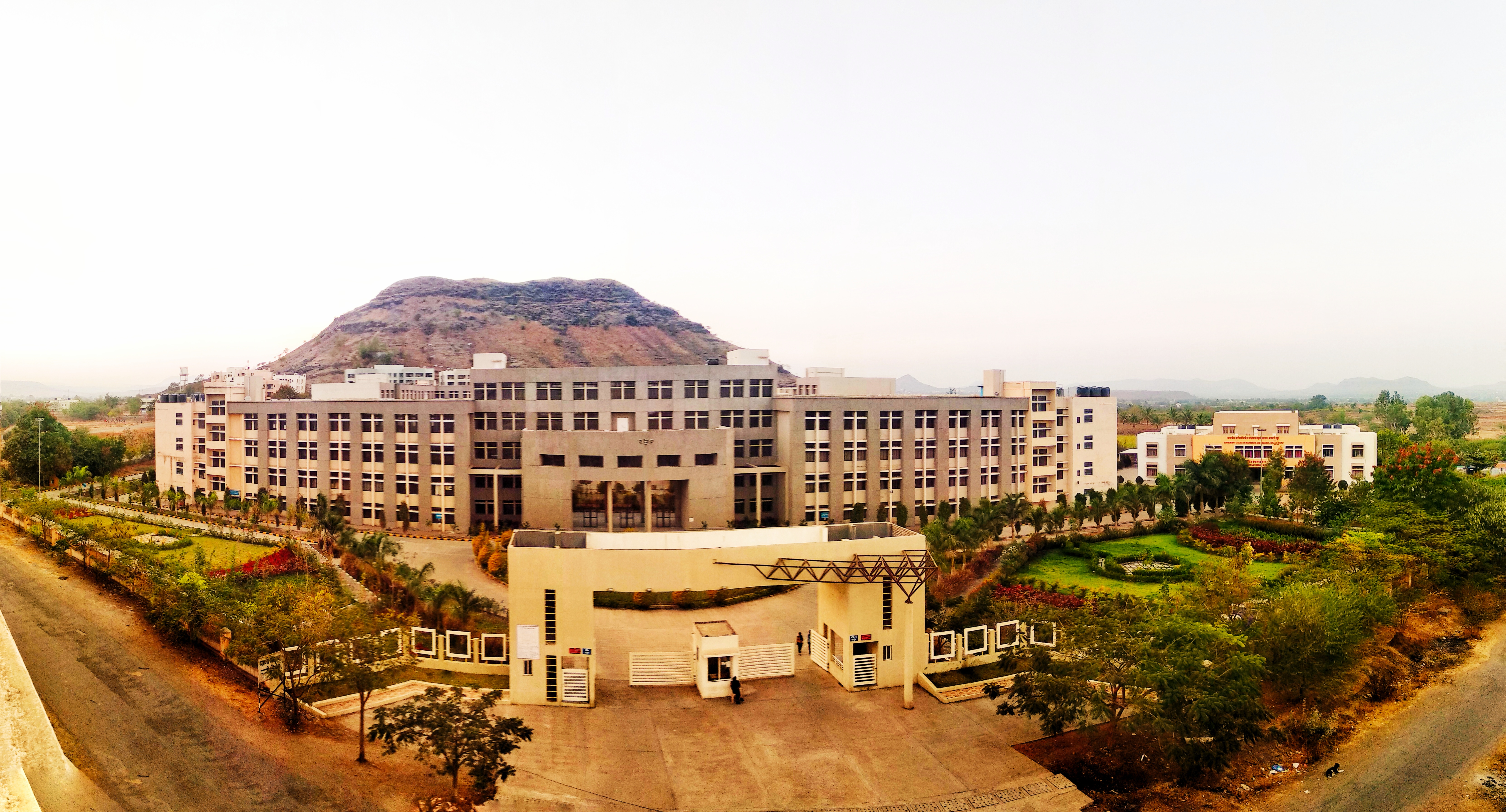 The aerial view of College